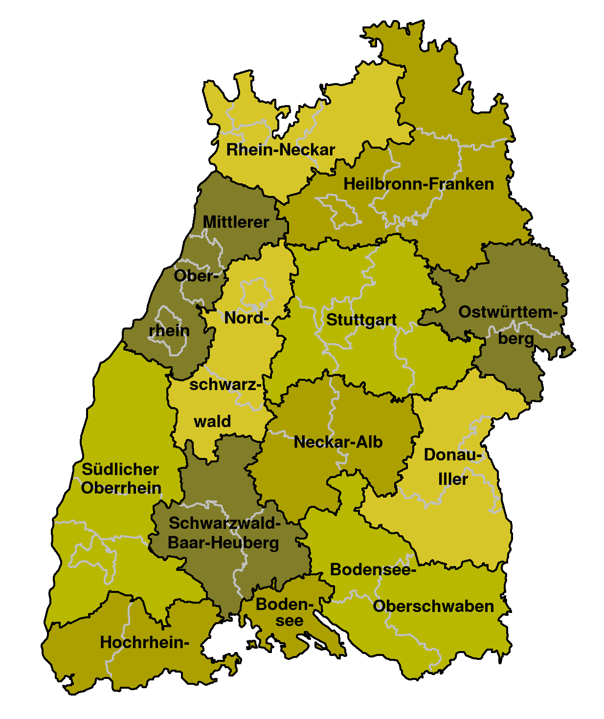 Maps of the administrative regions in Baden-Württemberg